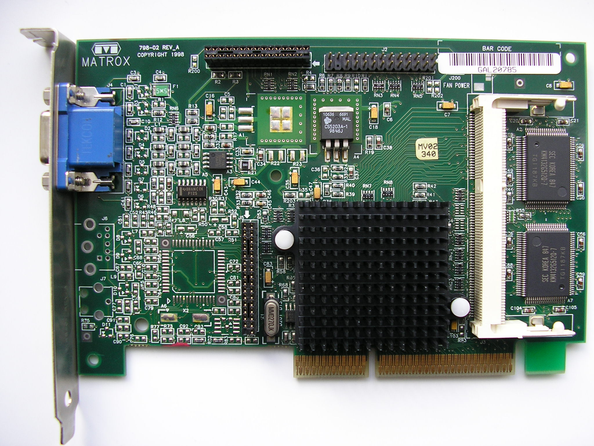 Matrox Millennium G200 SGRAM "798-02 REV_A" 1998 on the white sticker: G2+/MILA/8I ASSEMBLED IN IRELAND 209